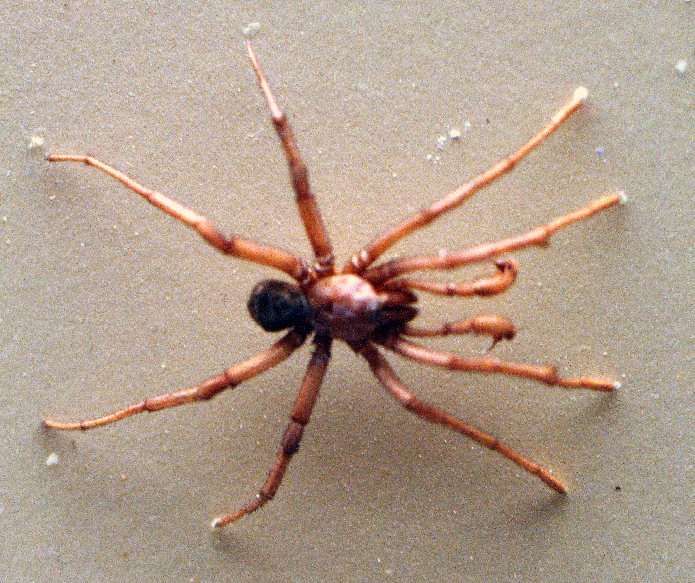 Specimen in the Australian Museum spider display.